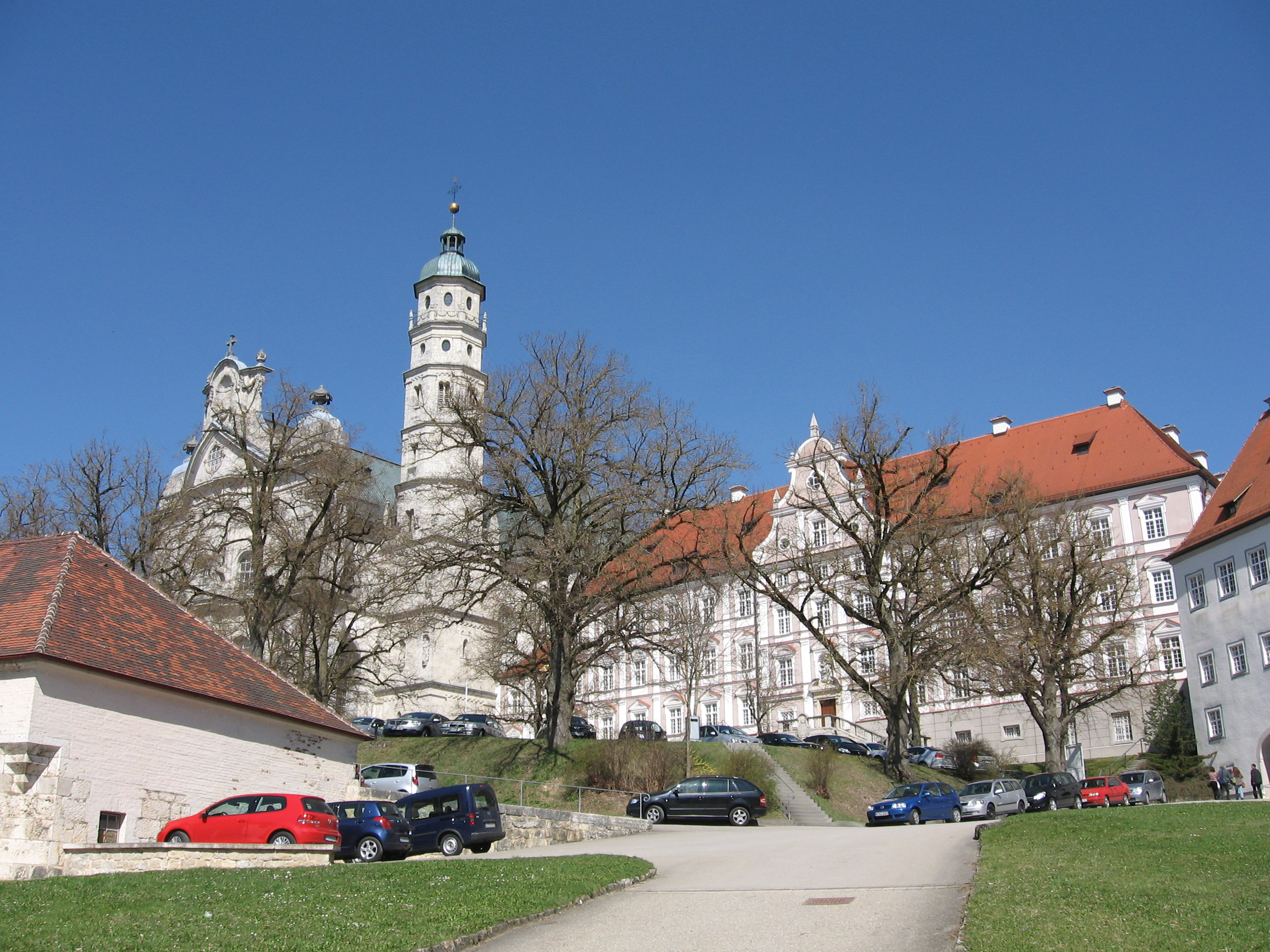 Benedictine Neresheim Abbey